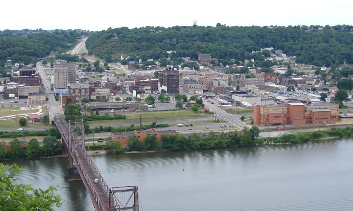 Steubenville OH from WV. 06-23-07 BY:Mike Sharp.